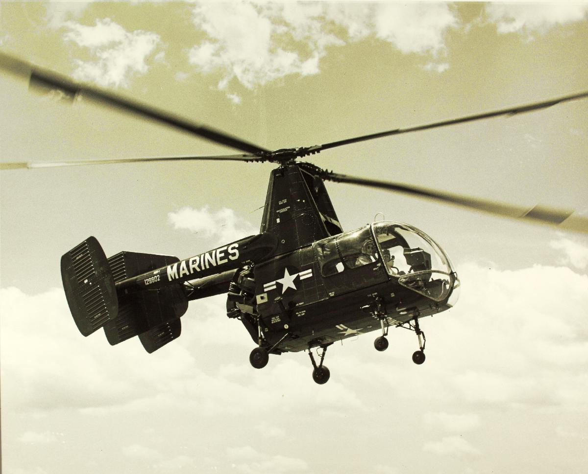 Kaman Navy/USMC HOK-1.